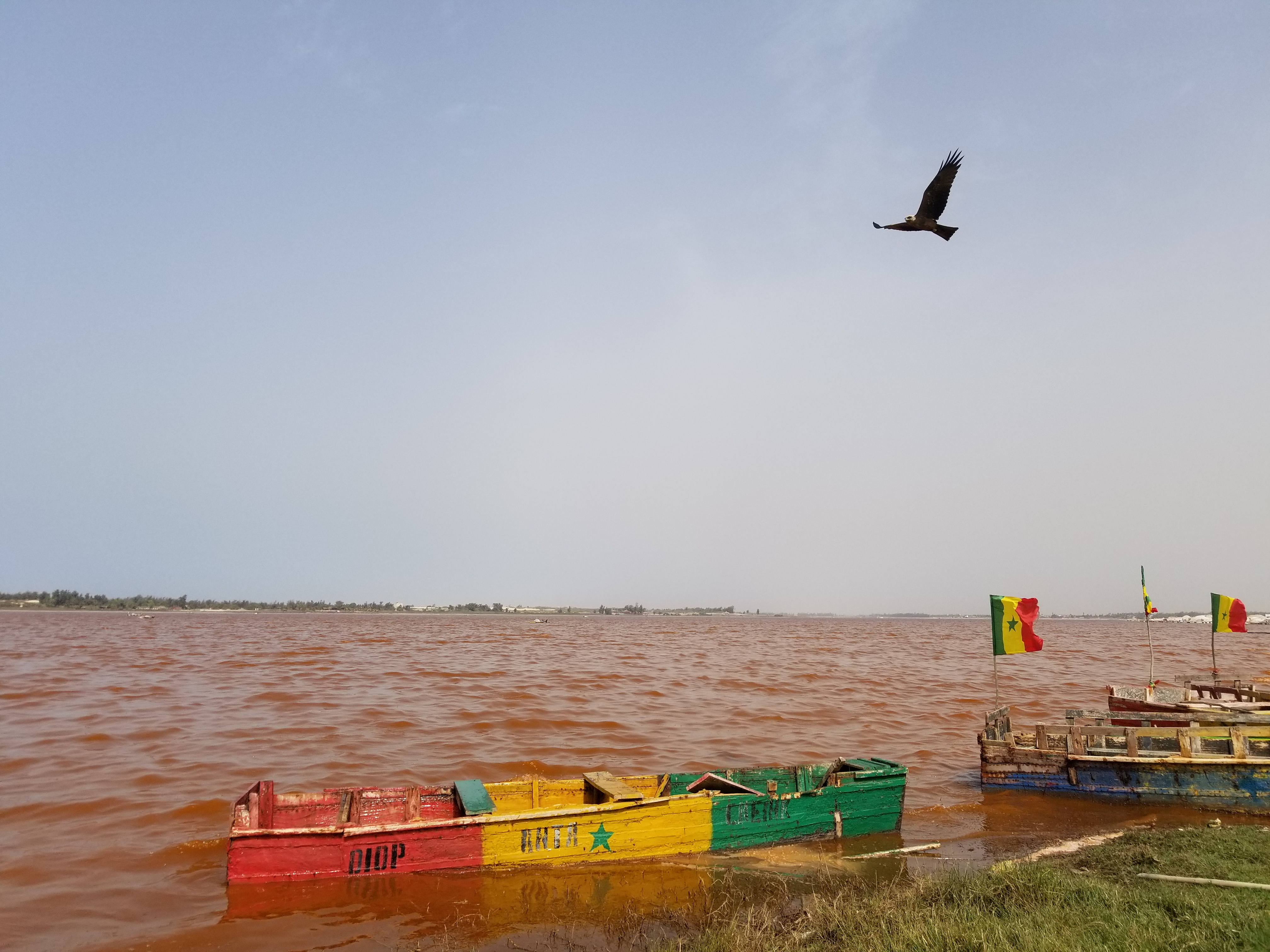 Local people offer a lot of activities to tourists, for example row in a small boat